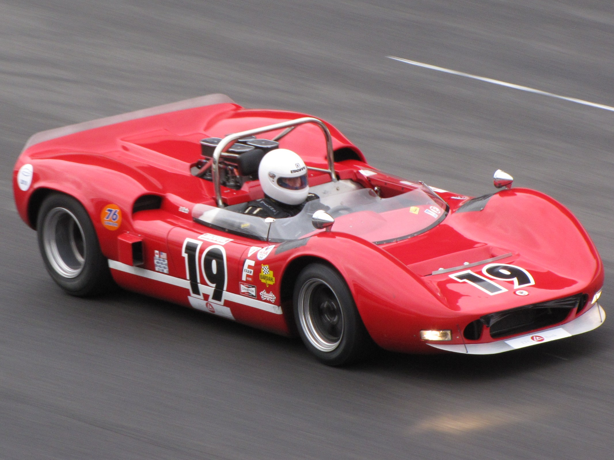 McLaren M1B at Classic Endurance Racing in Spa-Francorchamps 2010.